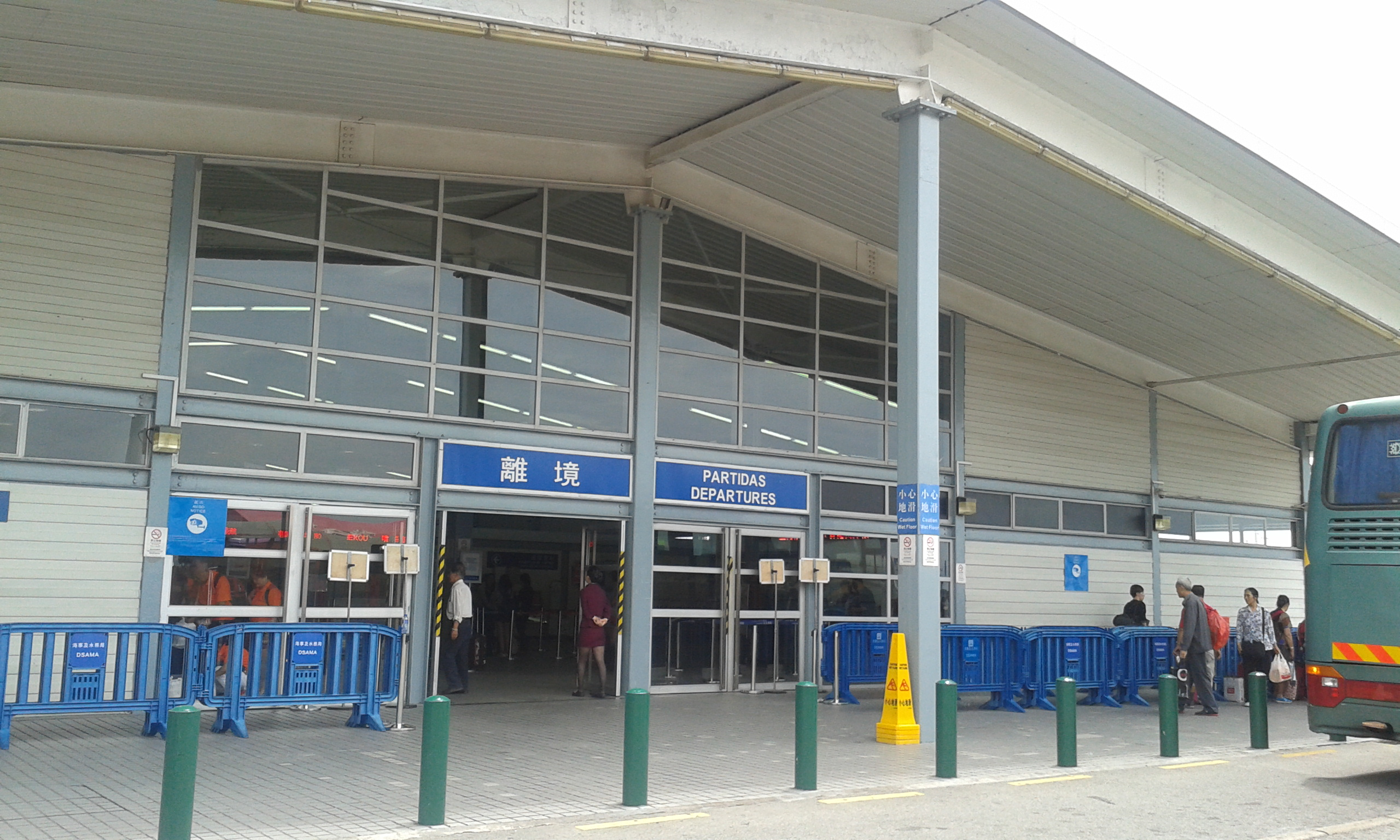 Temporary Taipa Ferry Terminal 2